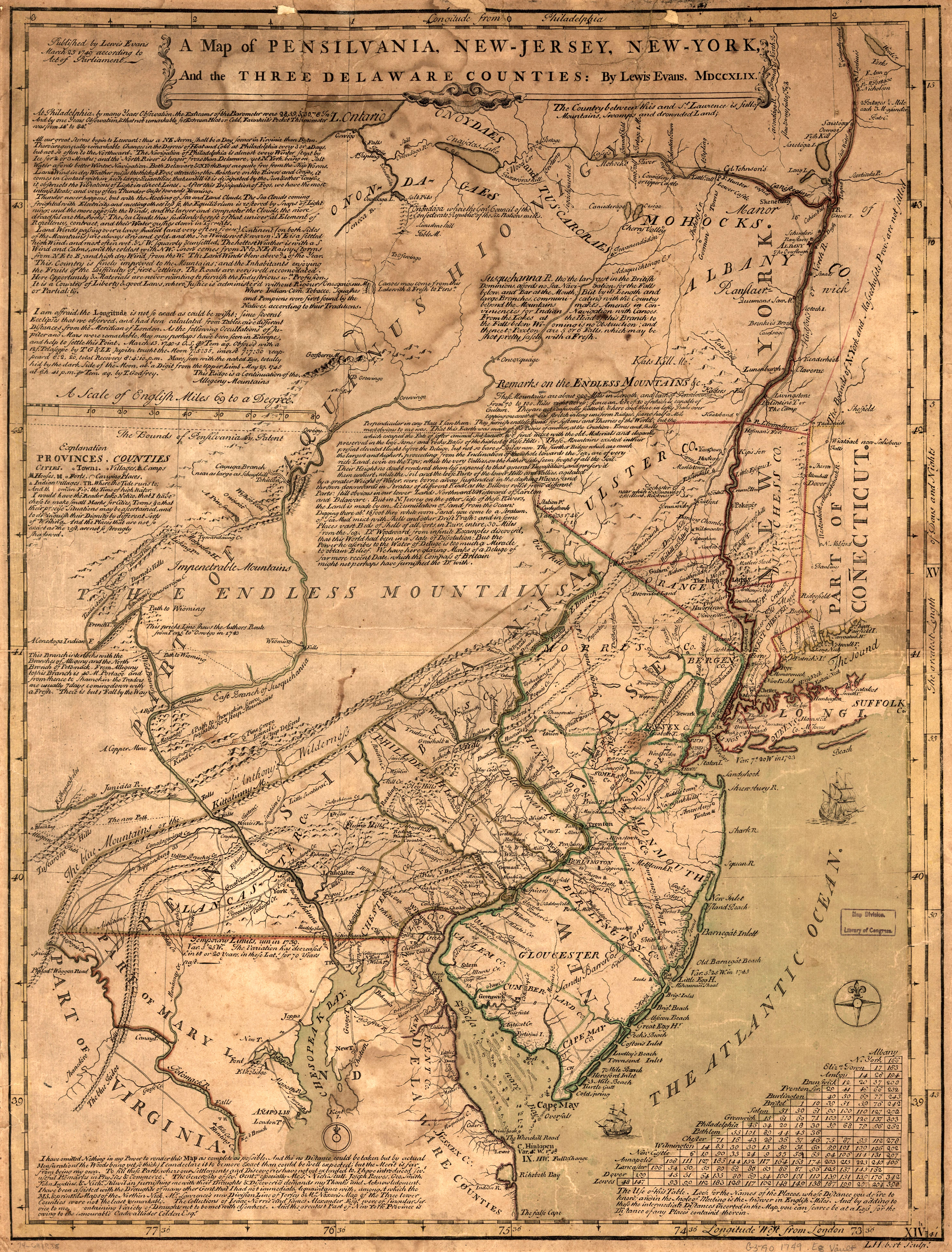 A map of Pennsylvania, New Jersey, New York, and the three Delaware counties by Lewis Evans, engraved by L. Hebert. Scale ca. 1:960,000. Hand colored. Relief shown pictorially. Soundings shown in fathoms. Prime meridian: Philadelphia and London. Shows trails. Includes descriptive notes and distance chart. LC Maps of North America, 1750-1789, 1035 LC Trails, 65 Available also through the Library of Congress Web site as a raster image. Vault AACR2. Note: cropped and auto color adjusted